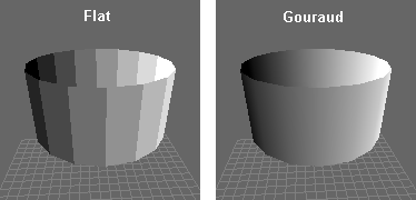 Direct3D shading modes illustration